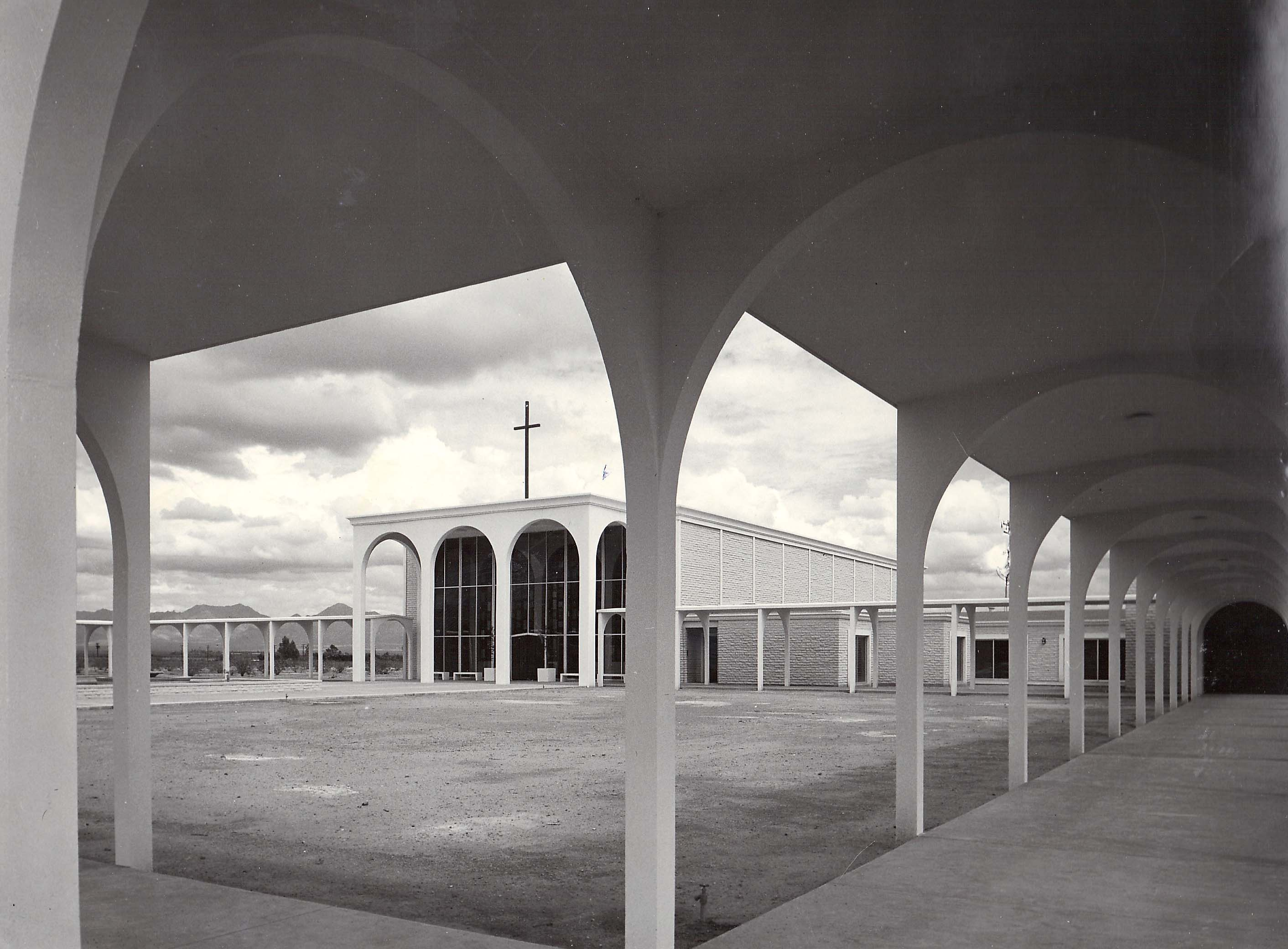 Sanctuary of Saint Barnabas on the Desert opening week 1961